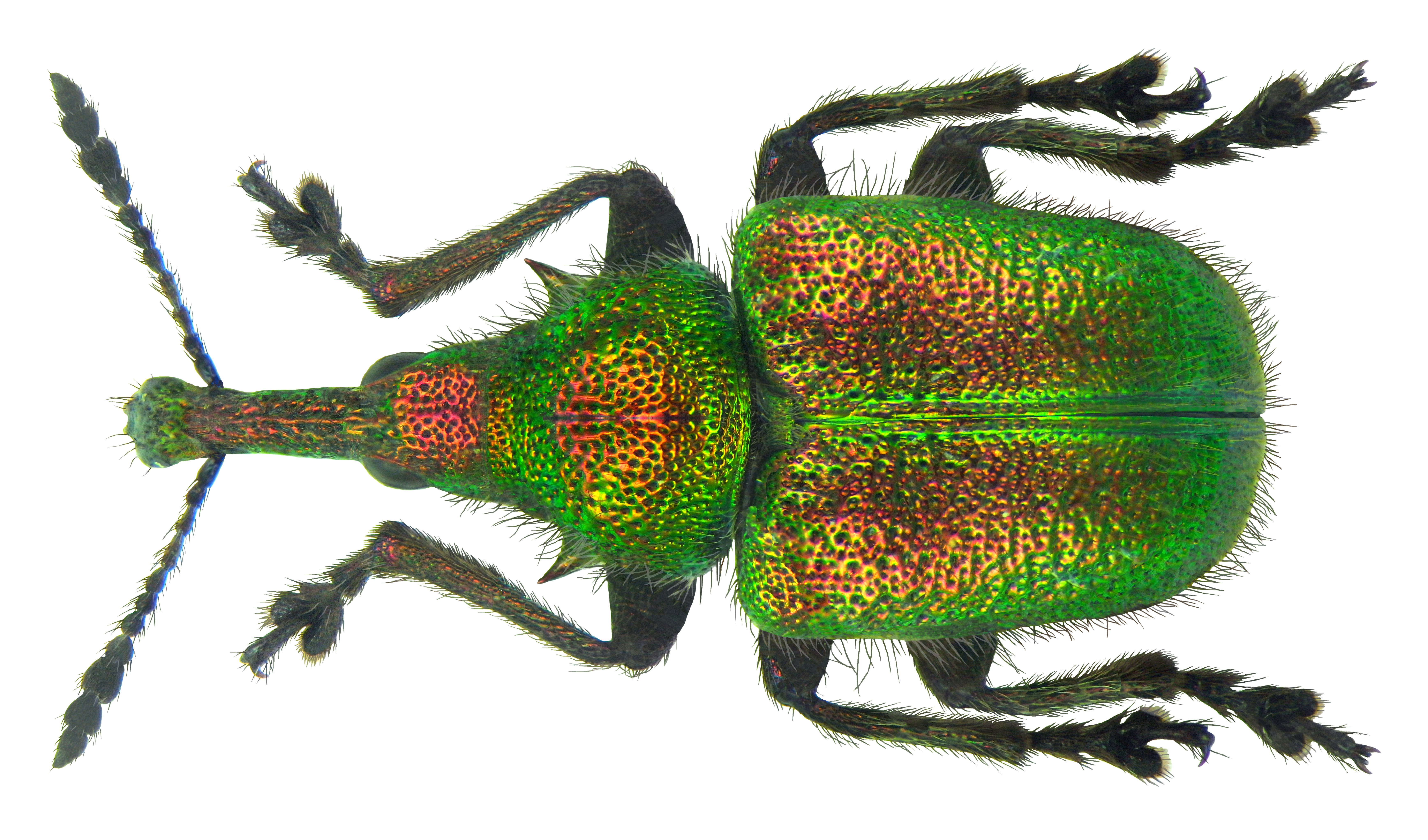 Family: Rhynchitidae Size: 5.5 to 9 mm Distribution: in much of the Palaearctic Region Ecology: on Prunus and Crataegus, larval development in the fruit Location: Germany, Bavaria, Lower Franconia, Rödelsee, Schwanberg U.Eitschberger leg, 18.V.1986; det. U.Schmidt, 1986 Photo: U.Schmidt, 2012